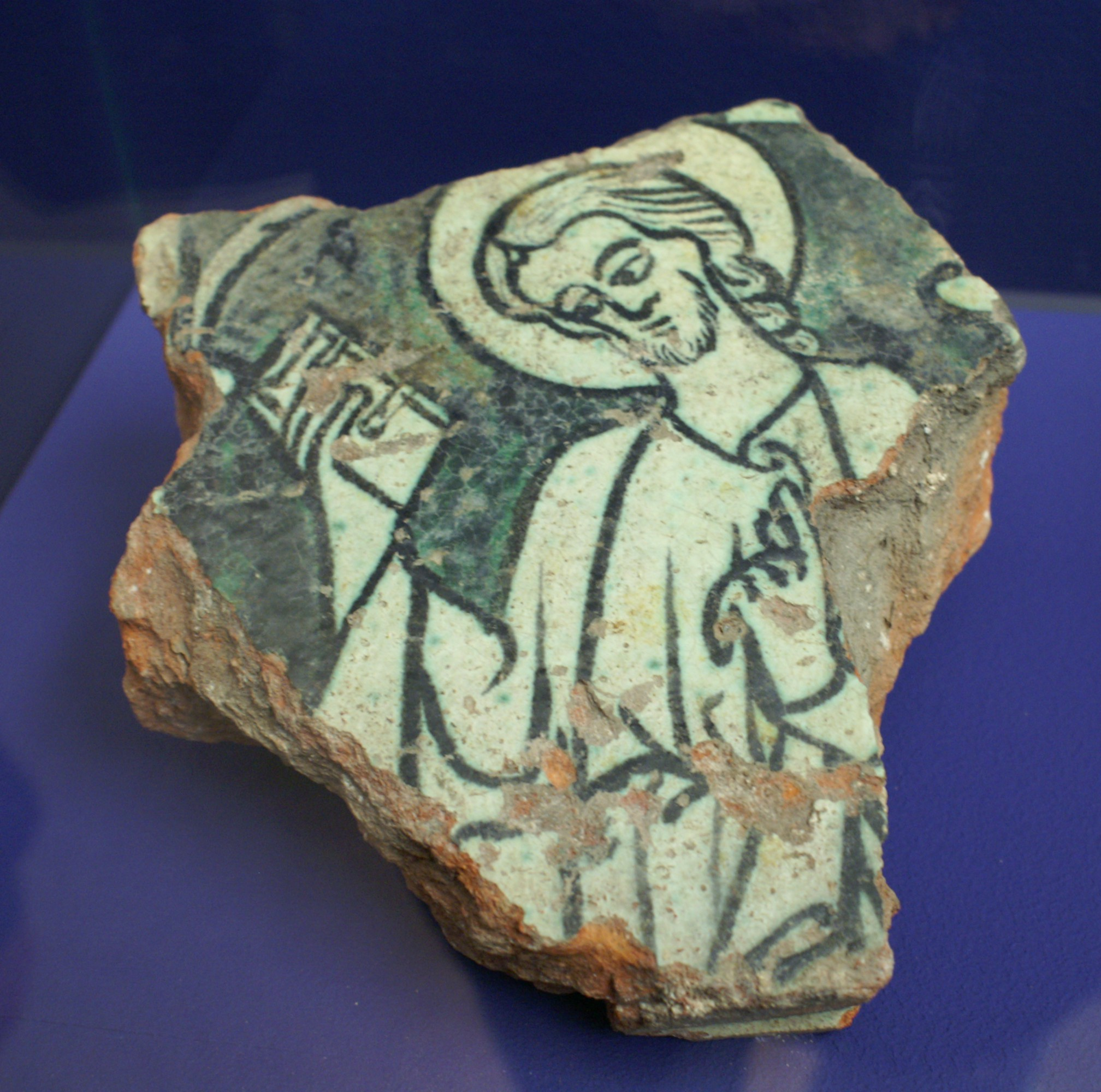 Fragment from the grave monument of Pope Benedict V. Hamburg terracotta, probably France, 13th Century